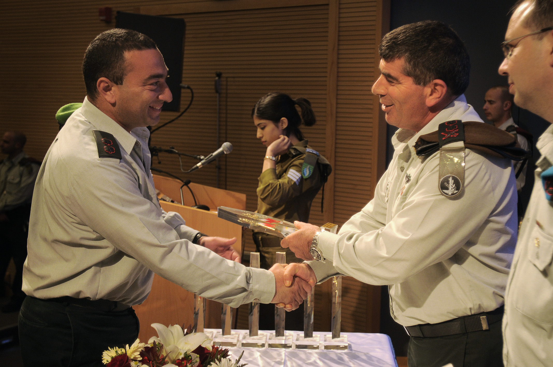 December 28, 2010. Yesterday (Monday), the IDF Chief of the General Staff, Lt. Gen. Gabi Ashkenazi, awarded the Chief of Staff Prize of Excellence which is given annually to outstanding IDF units in the following fields: operations, reservist, training and instruction, education, combat support, technology, and administration. In addition, awards were given out to three IDF officers who excelled in writing about a particular military issue. Pictured here: Lt. Gen. Gabi Ashkenazi awards a winner of the Chief of Staff Prize of Excellence. אתמול (ב'), התקיים טקס הענקת פרס הרמטכ"ל ליחידות מצטיינות. כמו כן הוענק פרס ליחידות מצטיינות בתחום הפעילות החינוכית ופרס לכתיבה בענייני צבא לשלושה קצינים. בתמונה: הרמטכ"ל, רב אלוף גבי אשכנזי מעניק תעודות הצטיינות לזוכים.